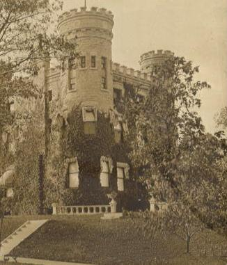 Image of the home of Robert G. Givens, 103rd and Longwood Drive, Beverly Hills Chicago